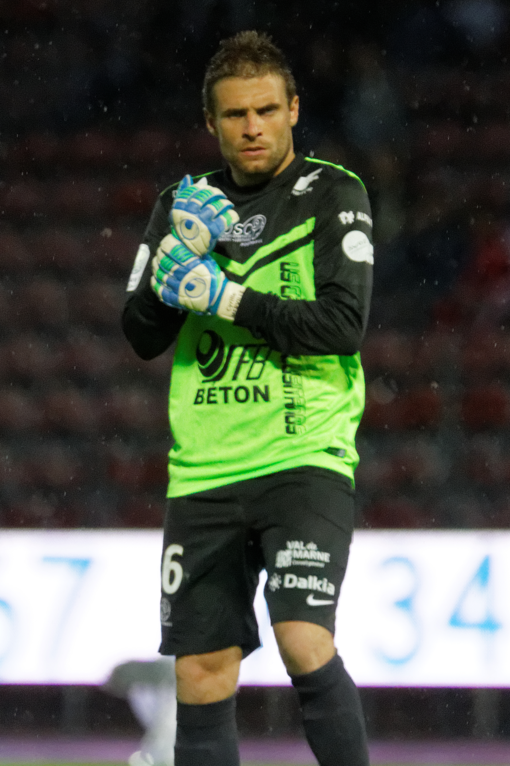 Créteil vs Châteauroux, 8th August 2014.